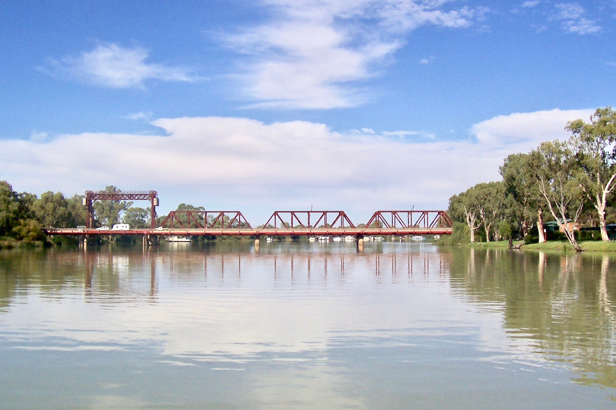 Paringa bridge over River Murray (viewed from upstream), in South Australia. Photographer: Scott Davis, date: 16 April 2005.